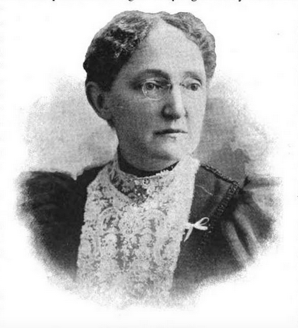 Elizabeth W. Greenwood, Evangelist in the Methodist Episcopal Church